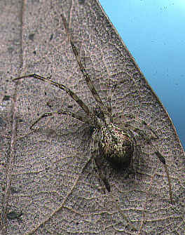 female Episinus affinis in web from Okinawa.